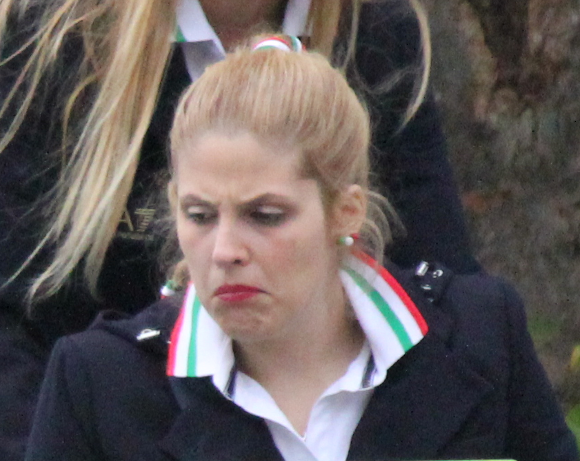 Giada Rossi in the loading zone at the Paralympic Village ahead of the Opening Ceremonies.